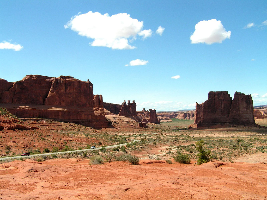 The back way into Arches National Park. We took it.